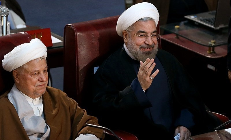 Hassan Rouhani and Akbar Hashemi Rafsanjani in Assembly of Experts